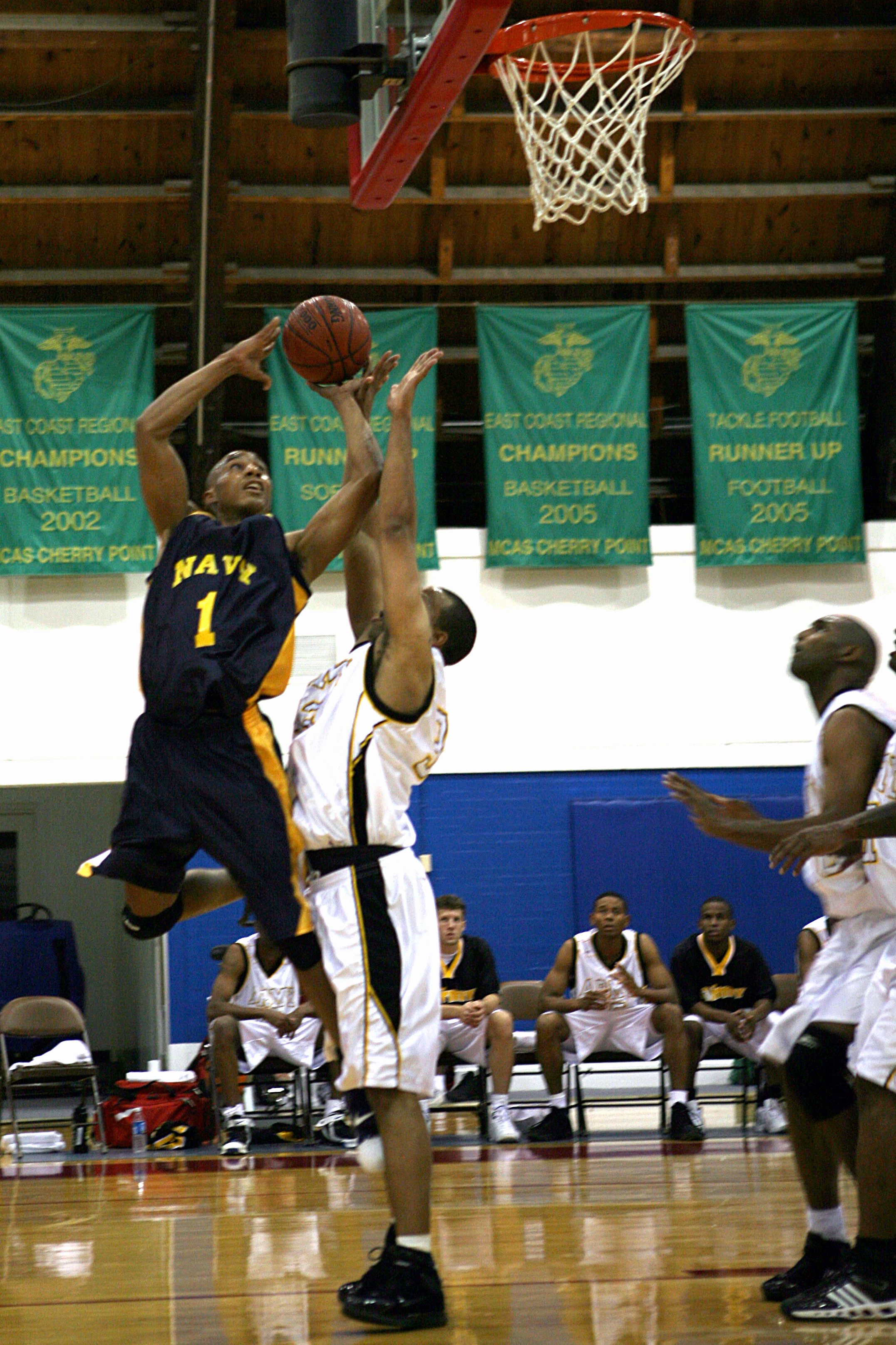 CHERRY POINT, N.C. (Nov. 9, 2007) Seaman Devon Wilson, All-Navy forward, shoots a lay up against the Army defense during game two of the Armed Forces Men's Basketball Championships. Wilson is stationed with Strike Fleet Training Command Atlantic, in Norfolk, Va. The Armed Forces Men's Basketball Championships were held at Marine Corps Air Station Cherry Point, N.C., Nov. 3-8. The All-Navy team came in fourth. U.S. Marine Corps photo by Cpl. Steven Cushman (RELEASED)